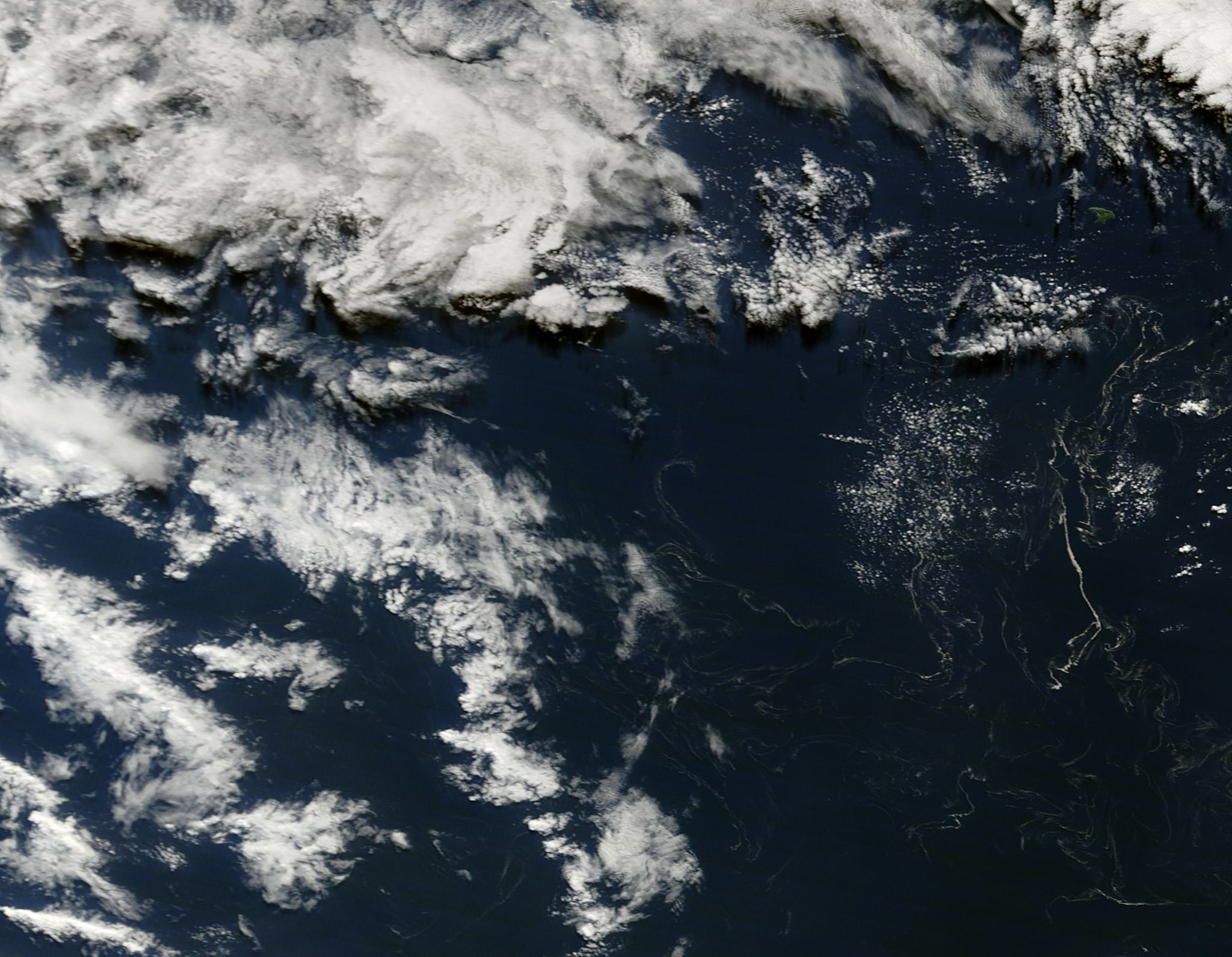 Image of Kermadec Island pumice raft, 12 August 2012